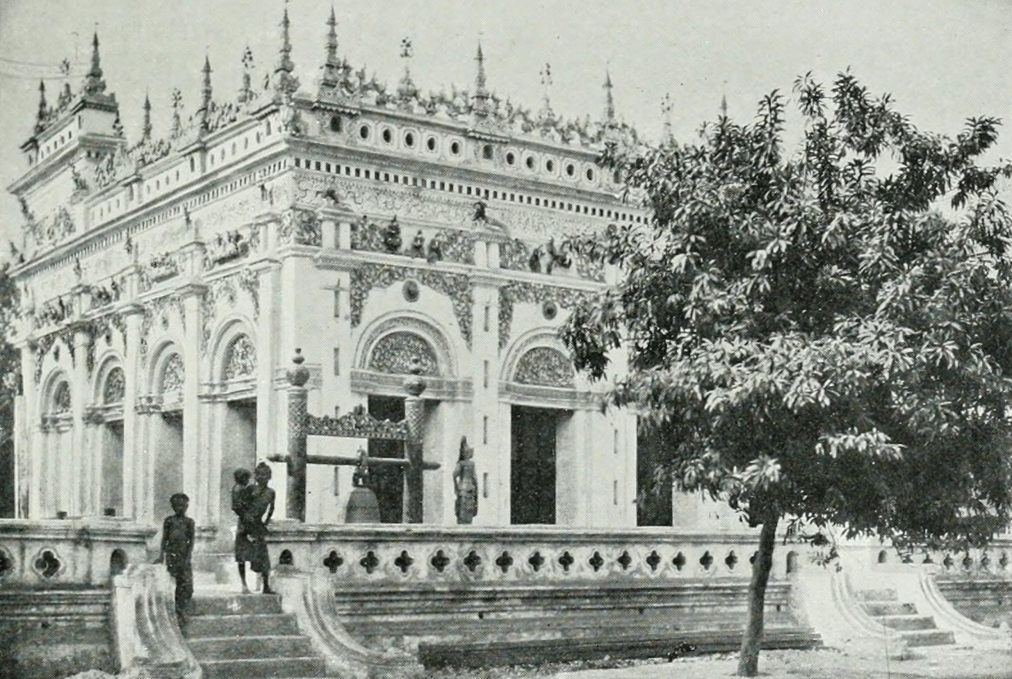 Facade of Yaw Mingyi Monastery in 1900s